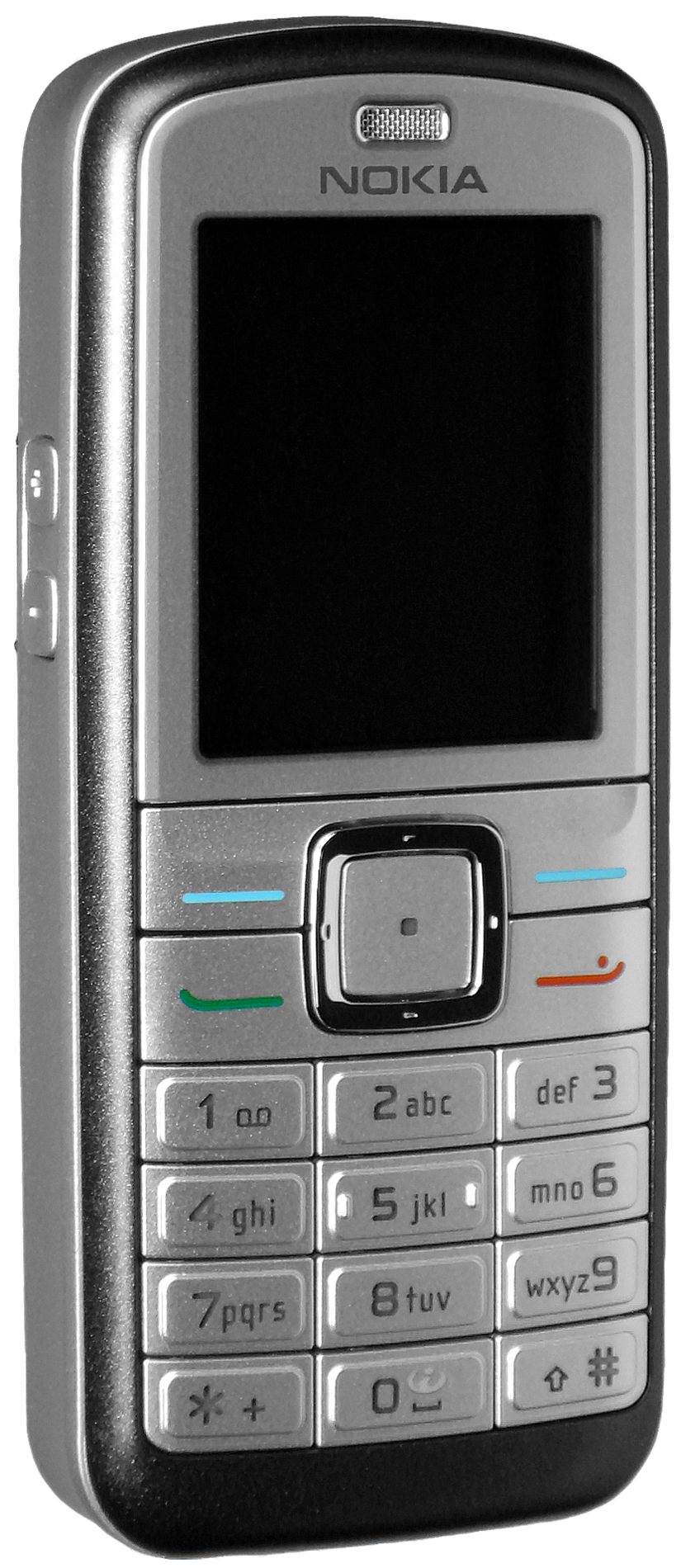 Nokia 6070.